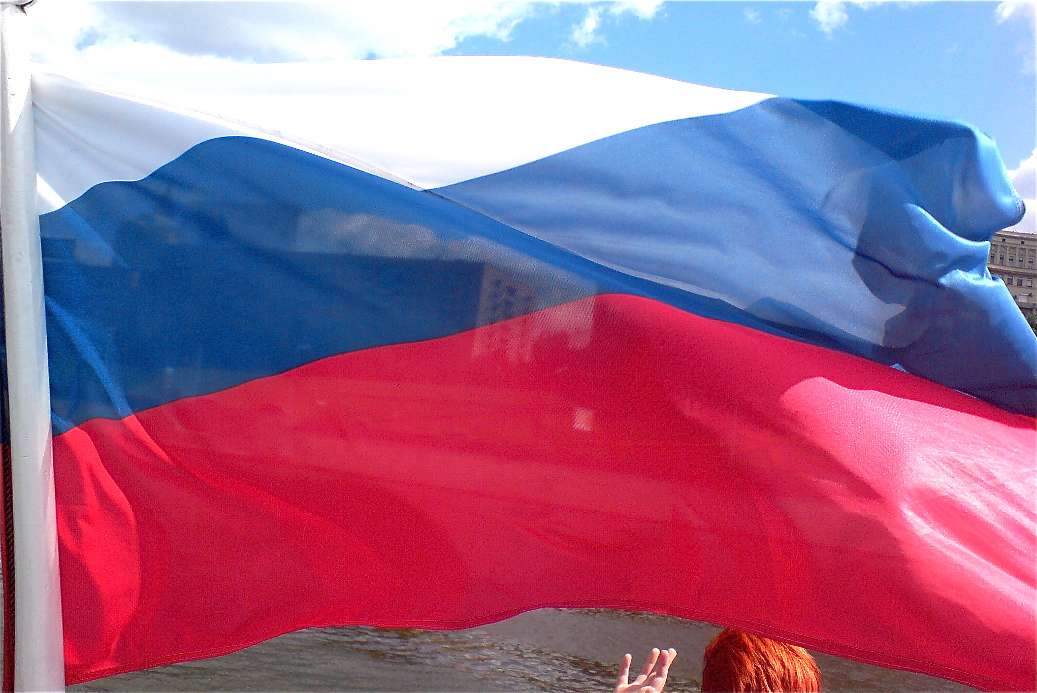 Russian tricolour on the deck of one of the boats on Moskva River.